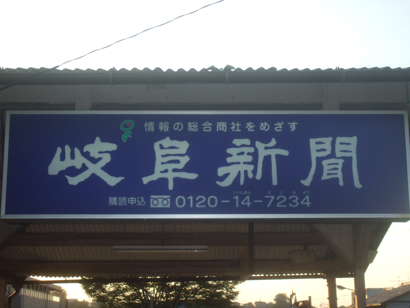 Gifu News-paper ad at Kani Station